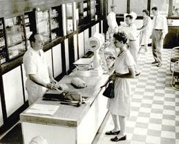 Burhop's seafood counter circa 1952.